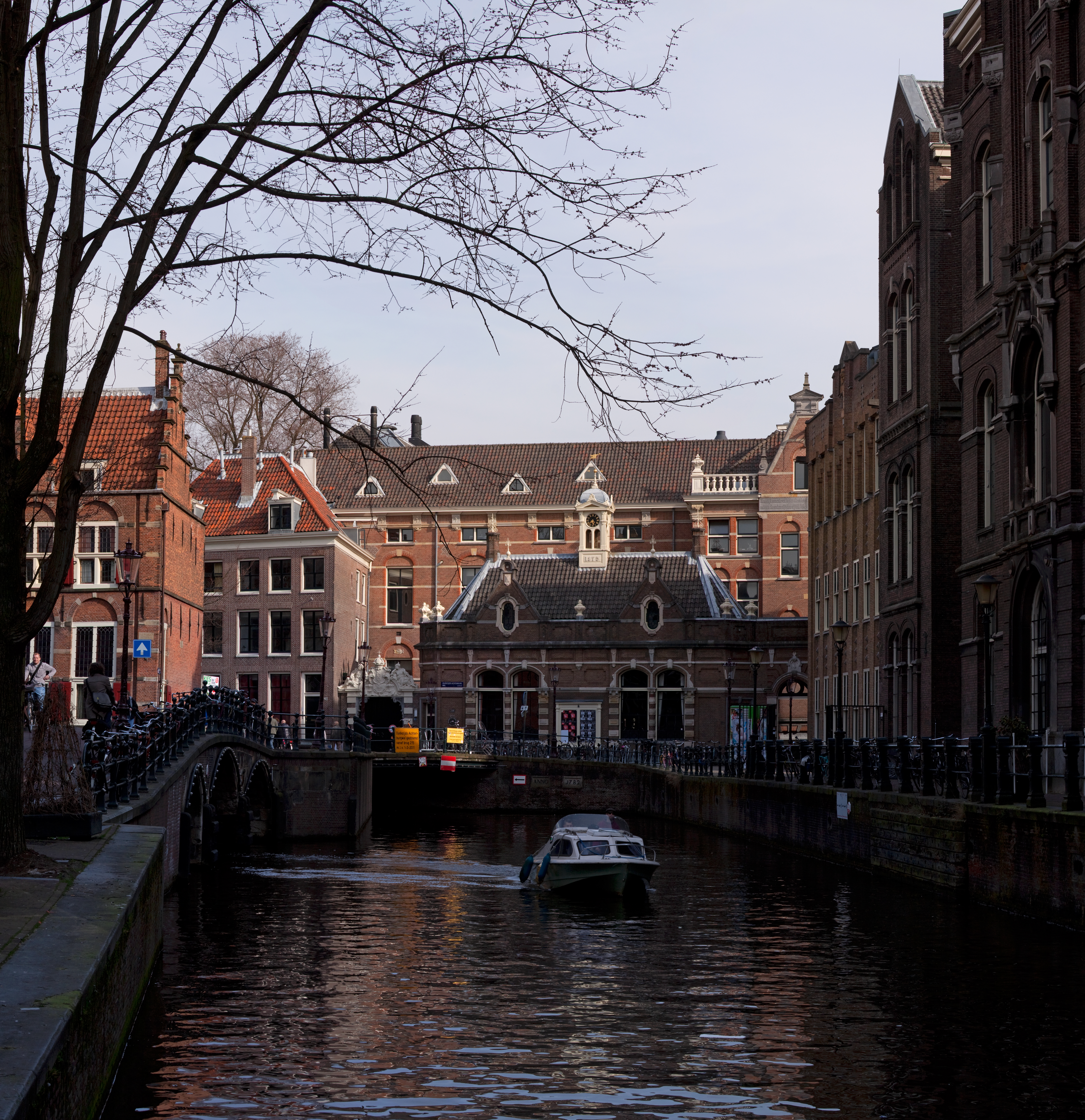 These buildings, seen from the Grimburgwal, are part of the University of Amsterdam (UvA) in the city centre (location Binnengasthuisterrein) of Amsterdam, the Netherlands.